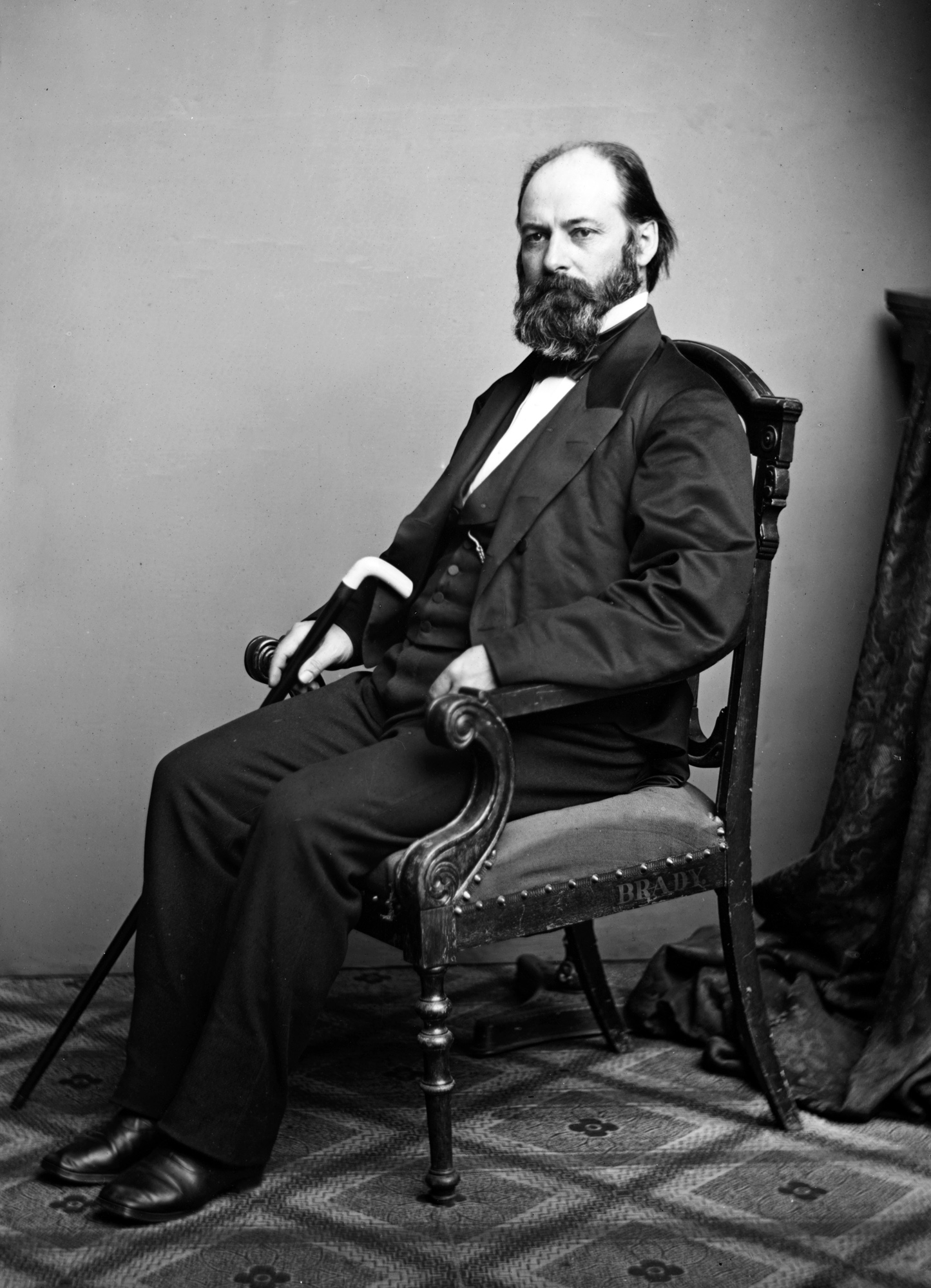 Hon. Wm. Irvine of N.Y.